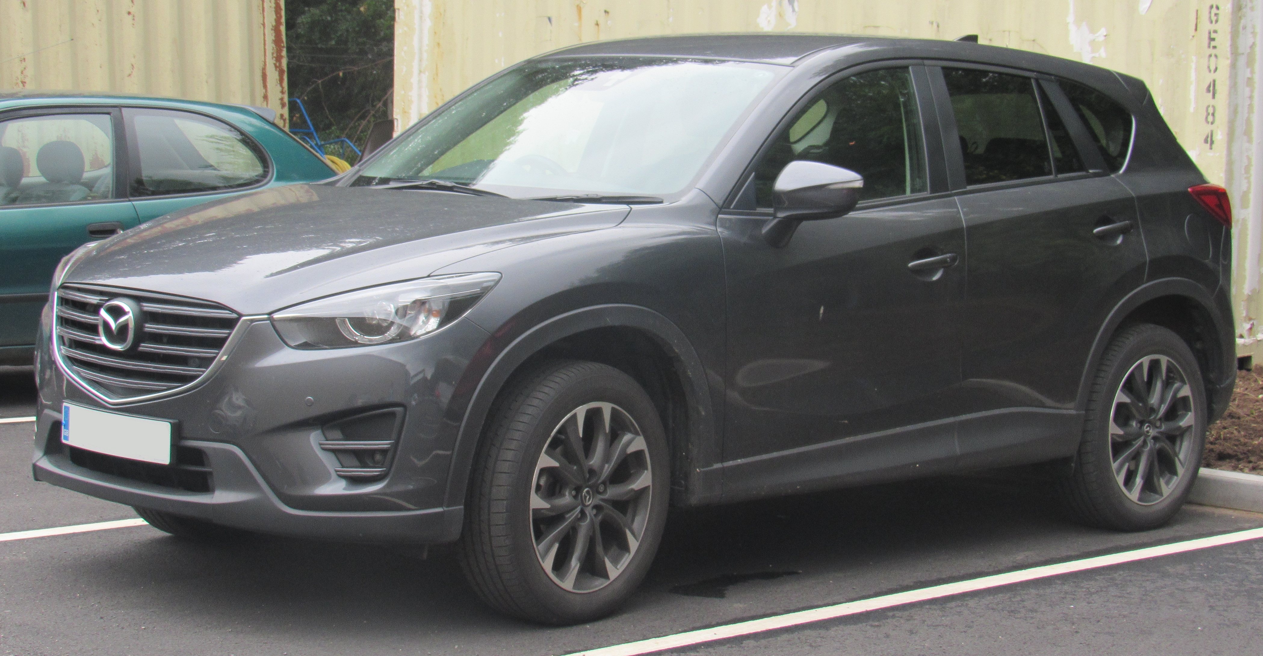 2015 Mazda CX-5 Sport 2.0 Taken in Leamington Spa